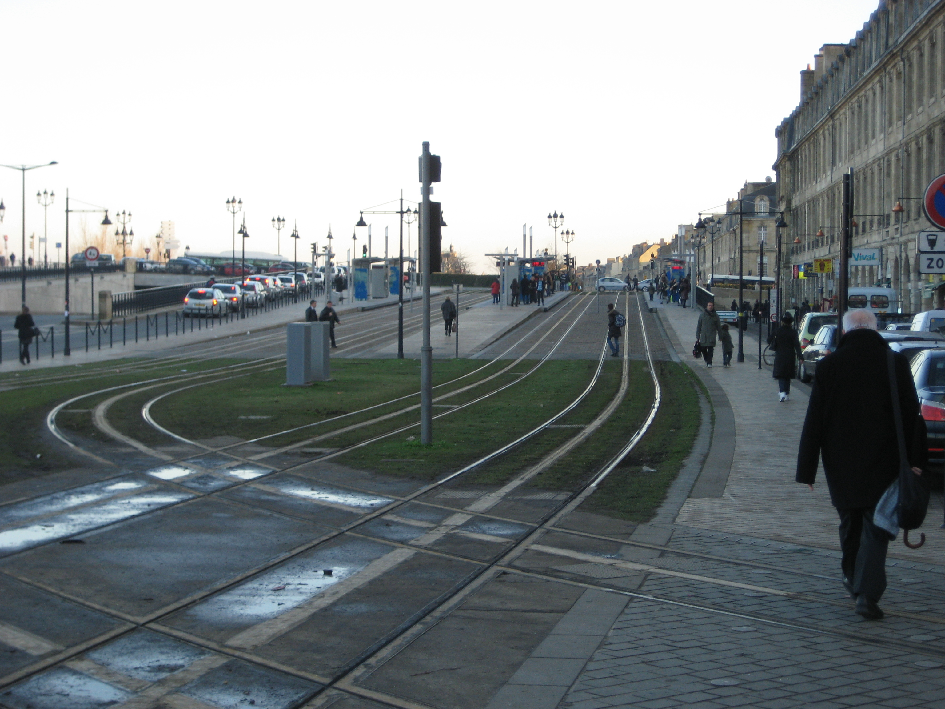 Station Porte de Bourgogne on the Tramway de Bordeaux